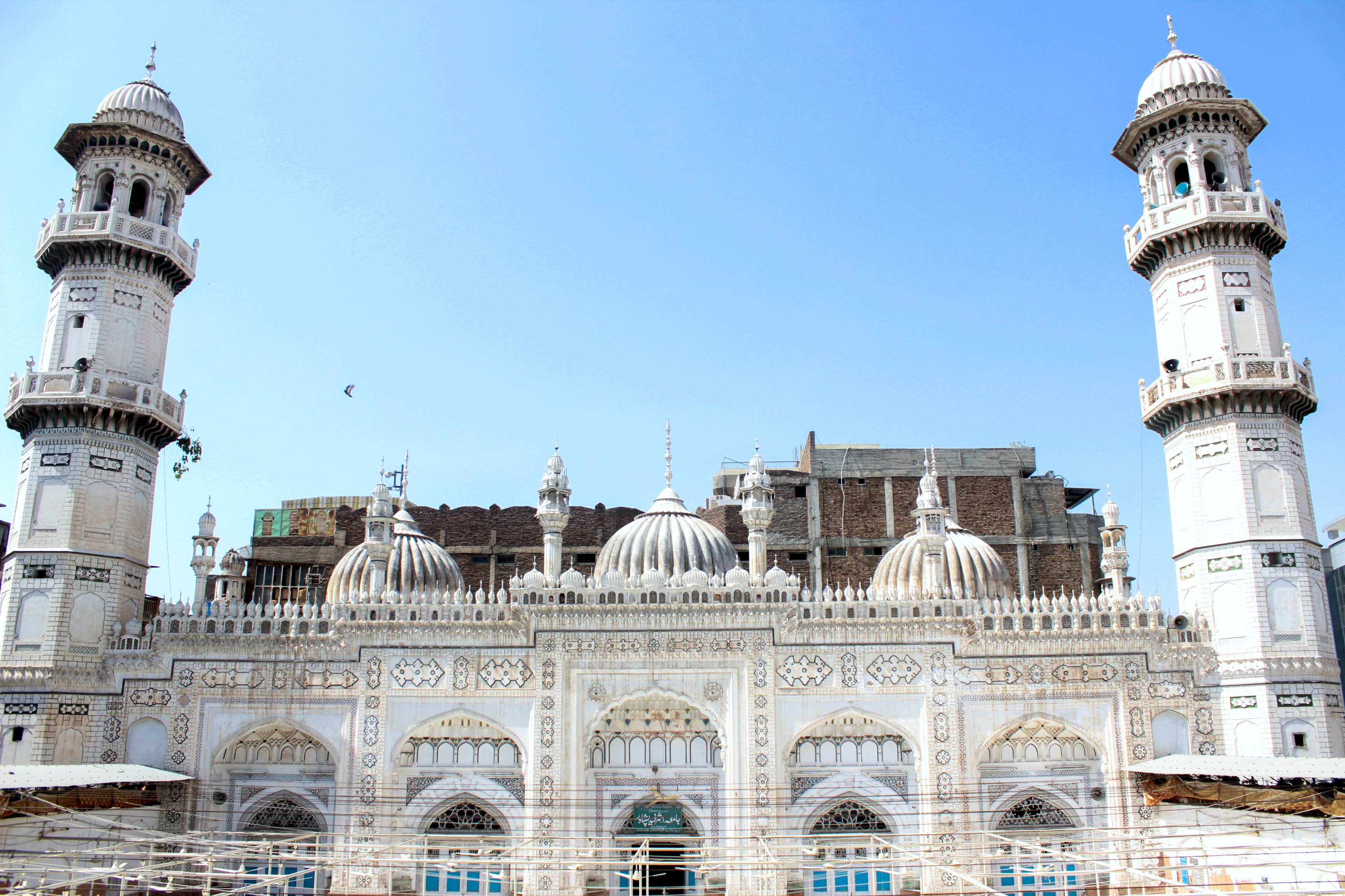 The Masjid Muhabat Khan is a 17th-century mosque in Peshawar, Khyber Pakhtunkhwa, Pakistan. It is named after the Mughal governor of Peshawar Nawab Mahabat Khan who served under Emperors Shah Jehan and Aurangzeb and who was the grandson of Nawab Dadan Khan (a former governor of Lahore). The name of the Masjid and the governor who built is often mispronounced as 'Muhabbat Khan' ('Love Khan') by the public majority instead of the correct pronunciation 'Mahabat Khan' ('Awe-inspiring Khan'). The Mosque was built in 1630. Its open courtyard has a centrally-located ablution pool and a single row of rooms lining the exterior walls. The prayer hall, flanked by two tall minarets, occupies the west side. According to the turn-of-the-century Gazetteer for Pakhtunkhwa, the minarets were frequently used in Sikh times ‘as a substitute for the gallows’. This is a photo of a monument in Pakistan identified as the KPK-1